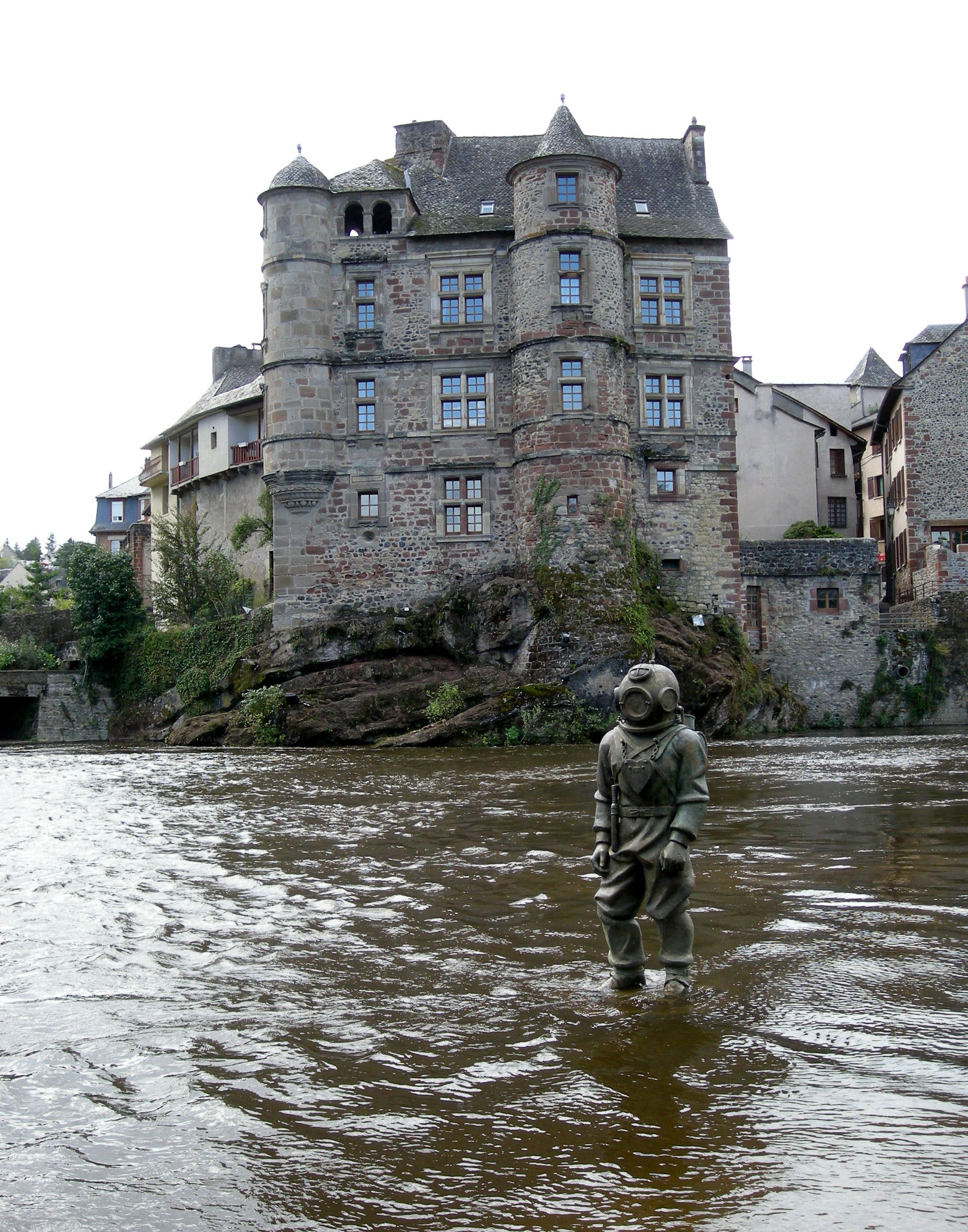 Castle (Vieux-Palais) and diver statue in Espalion(Aveyron)